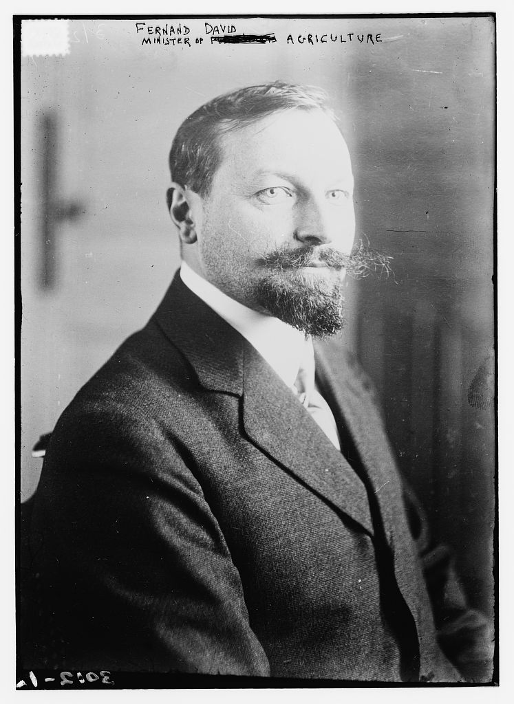 Fernand David -- Minister of Agric. (LOC) Bain News Service,, publisher. Fernand David -- Minister of Agric. in 1913-1914 [between ca. 1910 and ca. 1915] 1 negative : glass ; 5 x 7 in. or smaller. Notes: Title from unverified data provided by the Bain News Service on the negatives or caption cards. Forms part of: George Grantham Bain Collection (Library of Congress). Format: Glass negatives. Repository: Library of Congress, Prints and Photographs Division, Washington, D.C. 20540 USA, General information about the Bain Collection is available at Persistent URL: Call Number: LC-B2- 3012-1